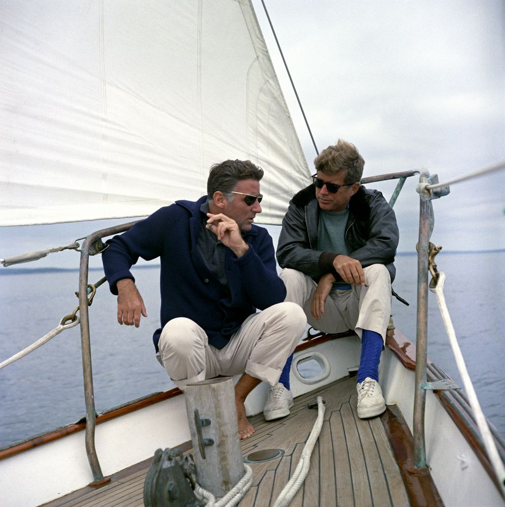 President John F. Kennedy sails with his brother-in-law, Peter Lawford (left), aboard the United States Coast Guard yacht "Manitou" off the coast of Johns Island, Maine.